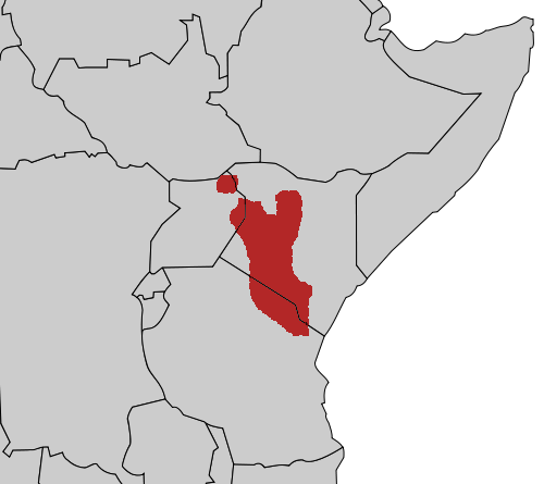 Tauraco hartlaubi distribution map.